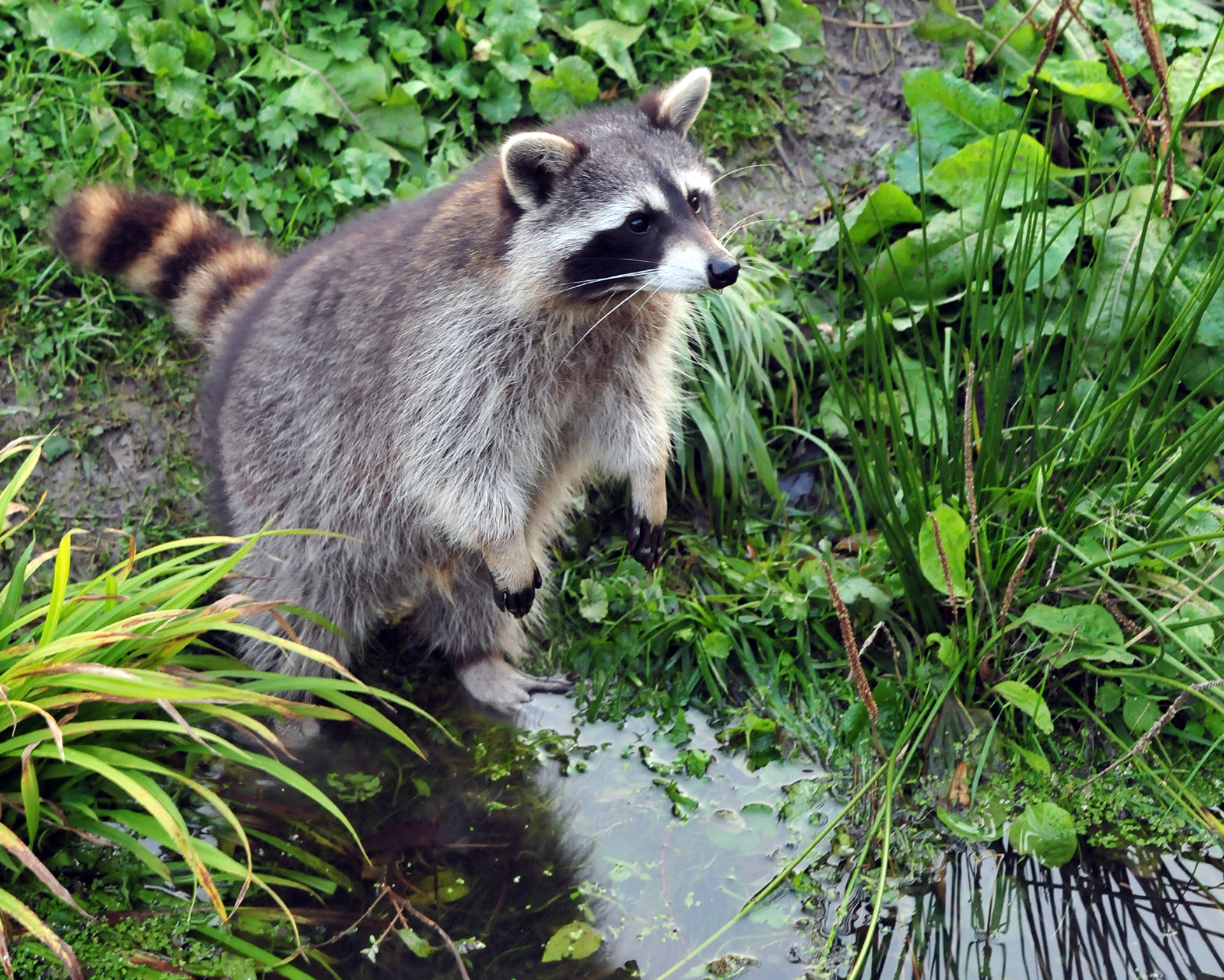 Raccoon